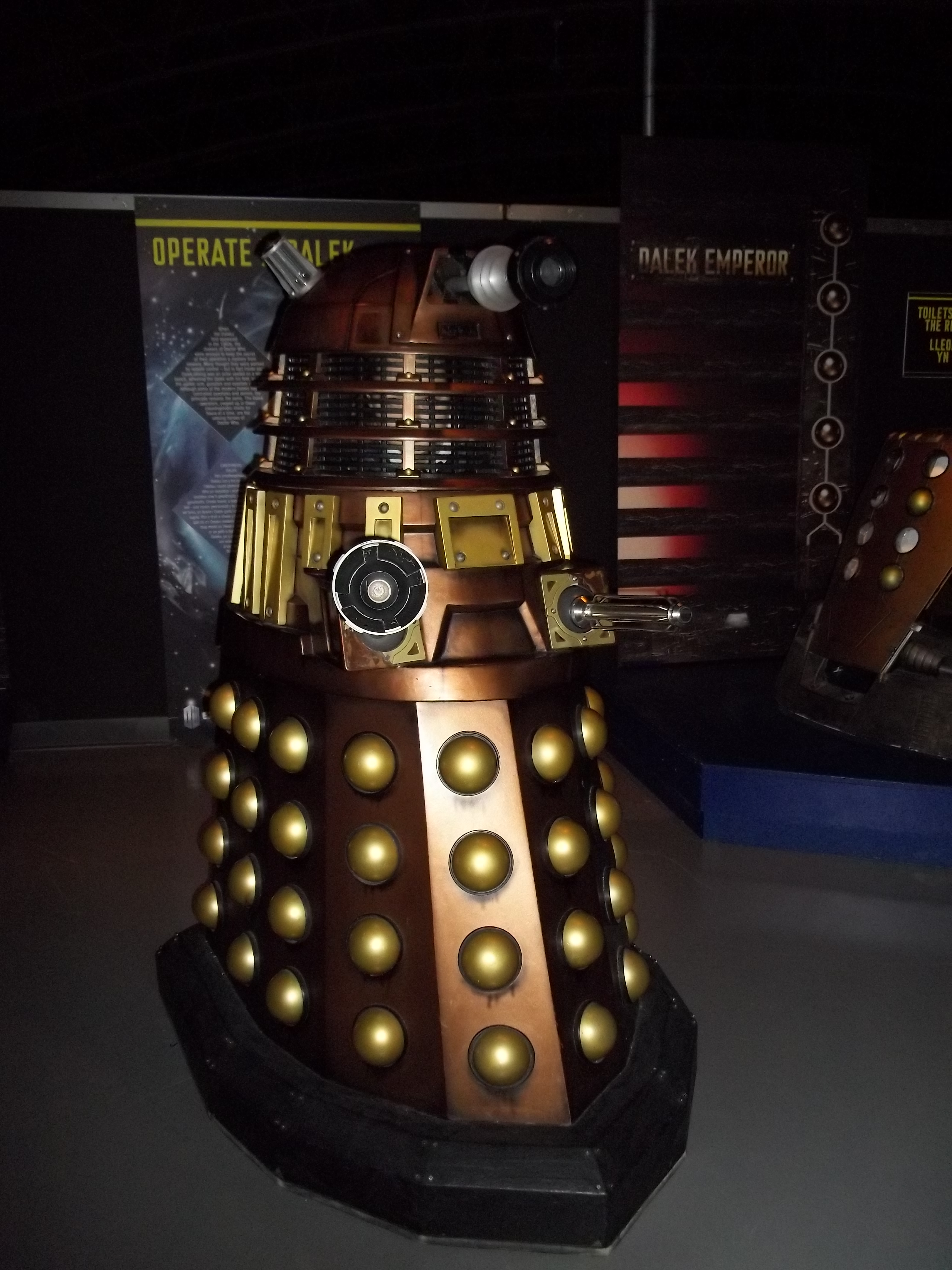 Dalek Doctor Who Experience